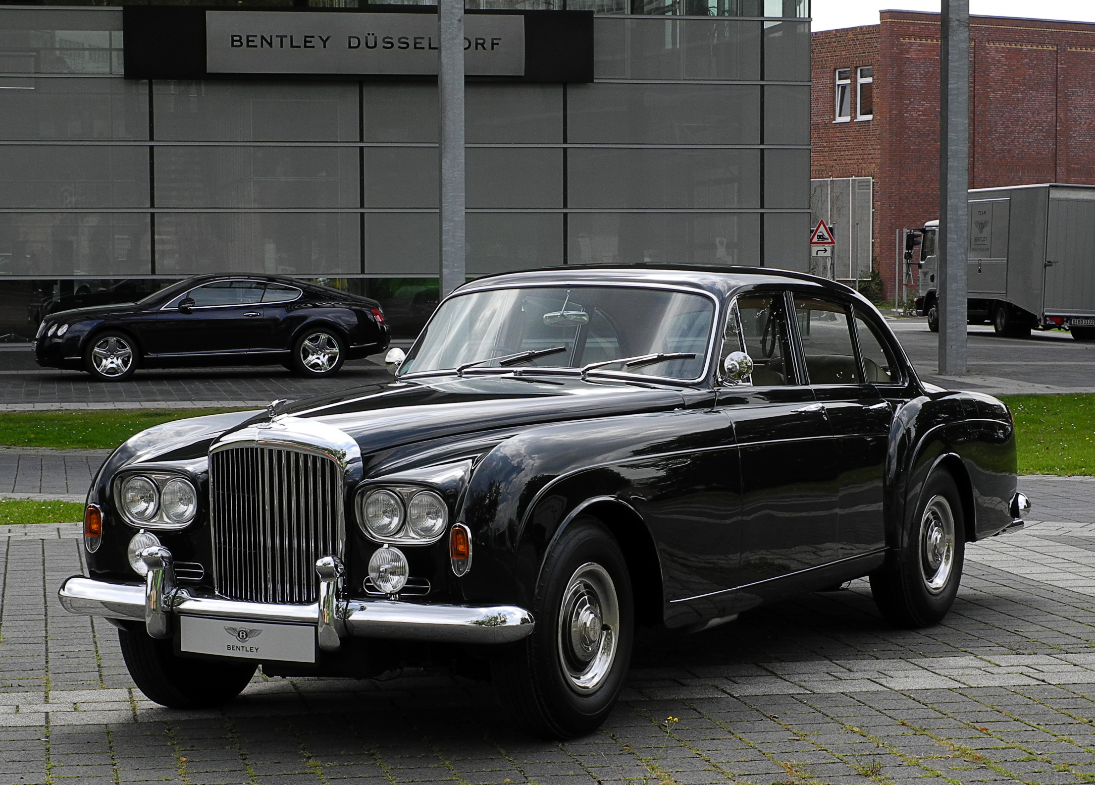 Bentley S3 Continental Flying Spur by HJ Mulliner